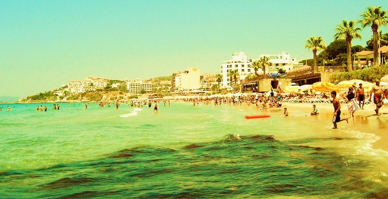 view of ladies beach Kusadasi looking north towards the town centre Aug 2008 pic taken by John Doyle doyler79